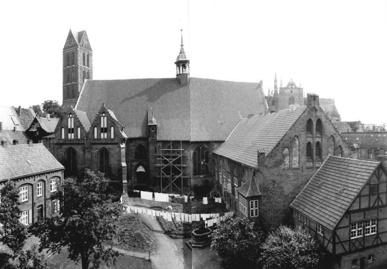 The Heiligen-Geist-Kirche in Wismar. The tower of St. Marienkirche on the left serves as a landmark of Wismar and its old culture.